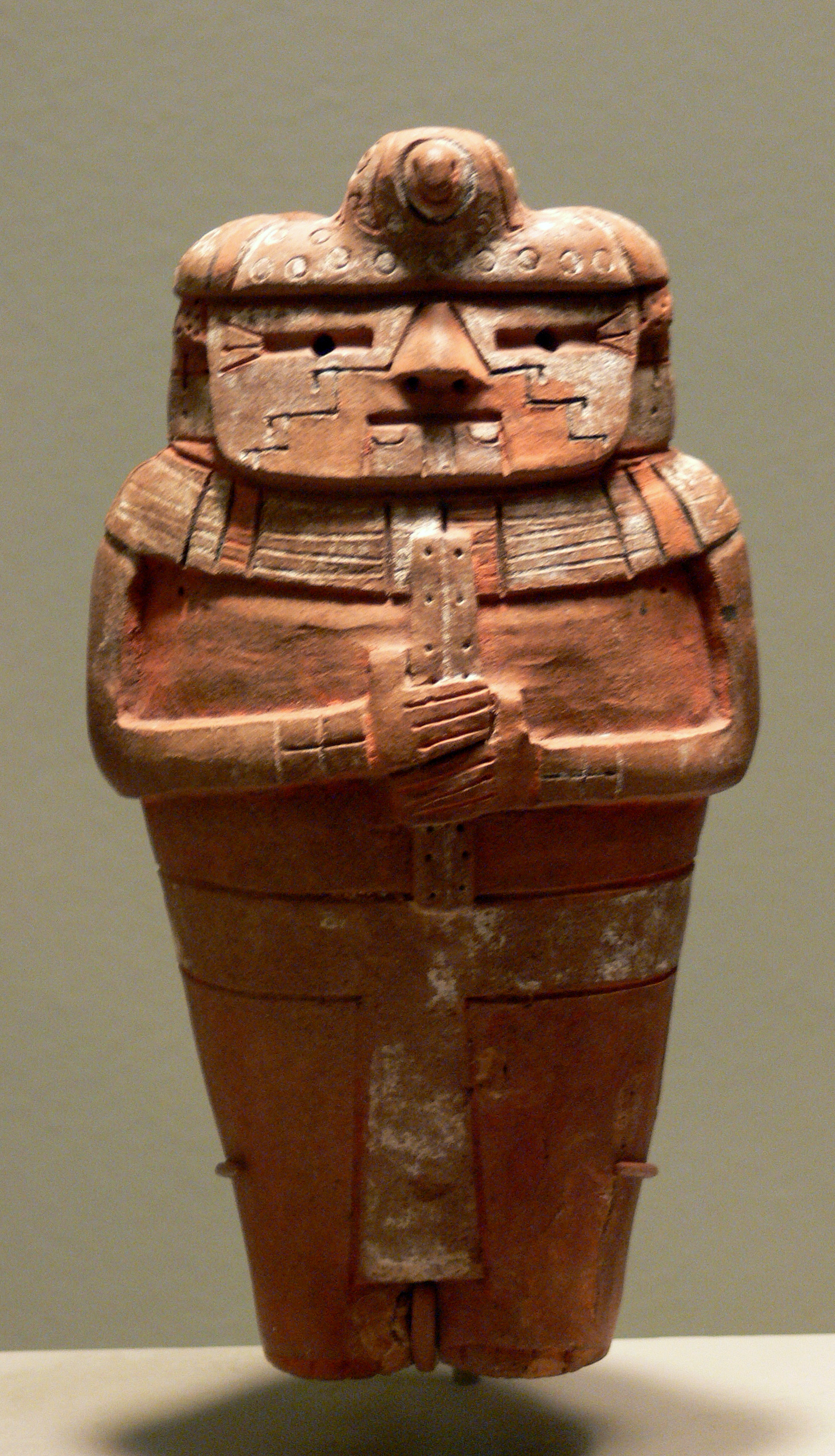 Figure of a flute player, Jequetepeque Valley, Peru; Templadera style, early Horizon, c. 900-200 BC; Ceramic Dallas Museum of Art, Dallas, Texas; Dallas Museum of Fine Arts purchase, object number 1971.19